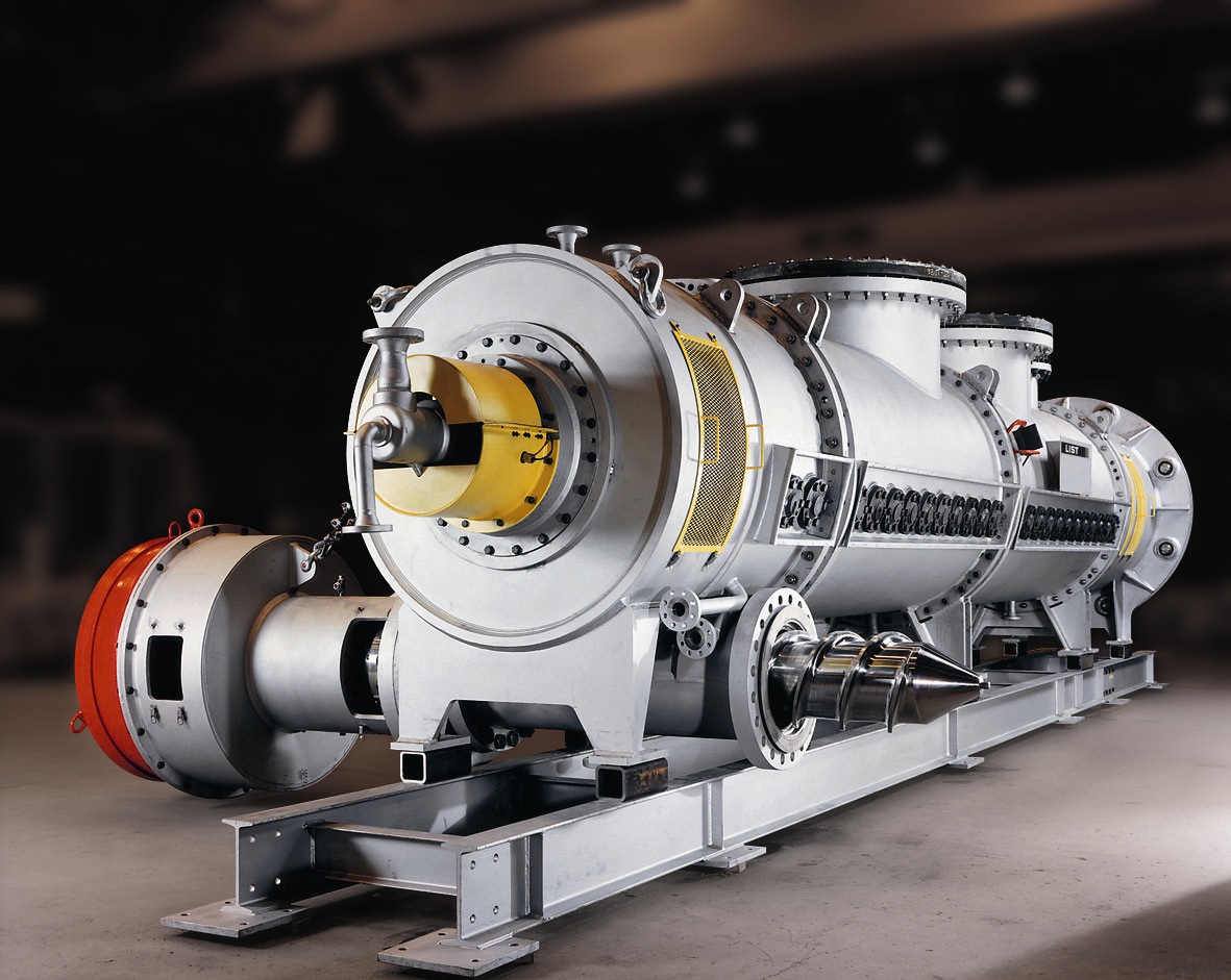 SingleShaft LIST Kneader Reactor